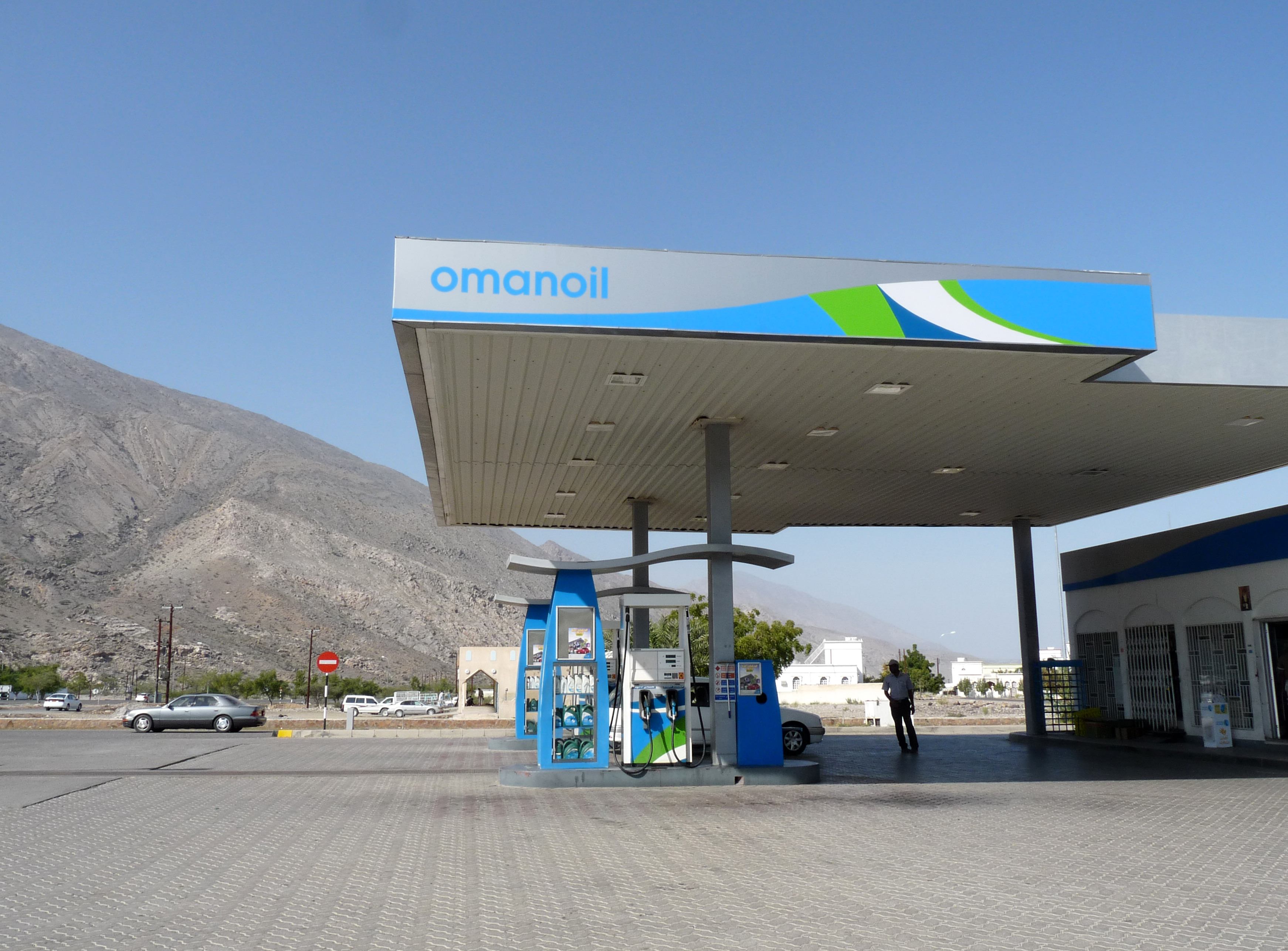 Petrol station in Northern Oman